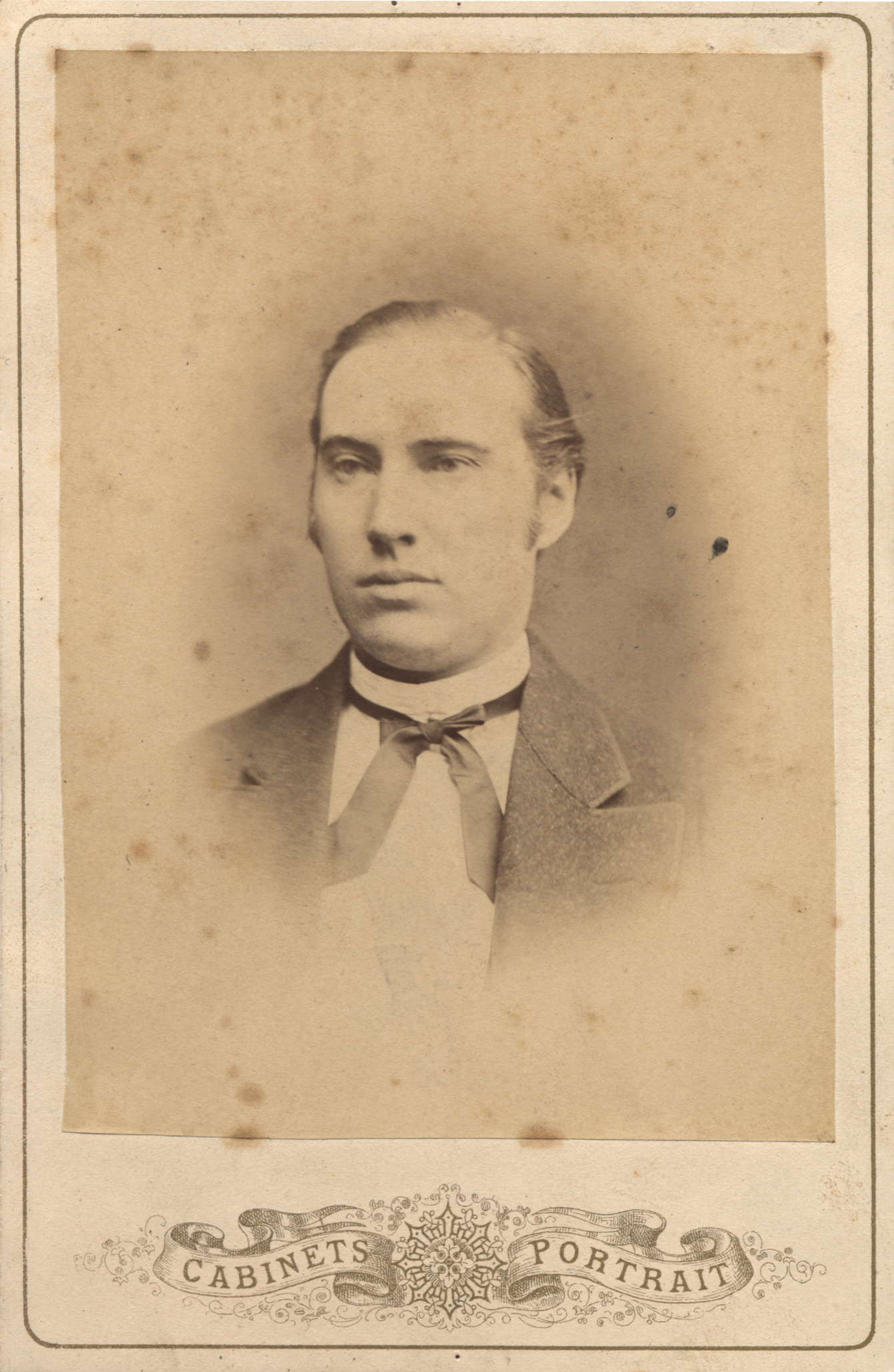 Carl Wilhelm Linnell (1842-1876), one of the founders of the academic fraternal society Sällskapet CC in Lund, Sweden, and also the first grand master of the society.